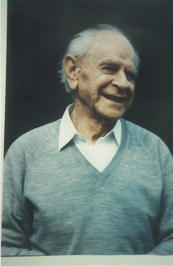 Photo of philosopher Karl Popper, taken before April 1987.